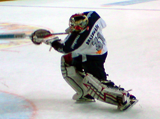 Fred Brathwaite, Ice Hockey Player, Goaltender, Adler Mannheim